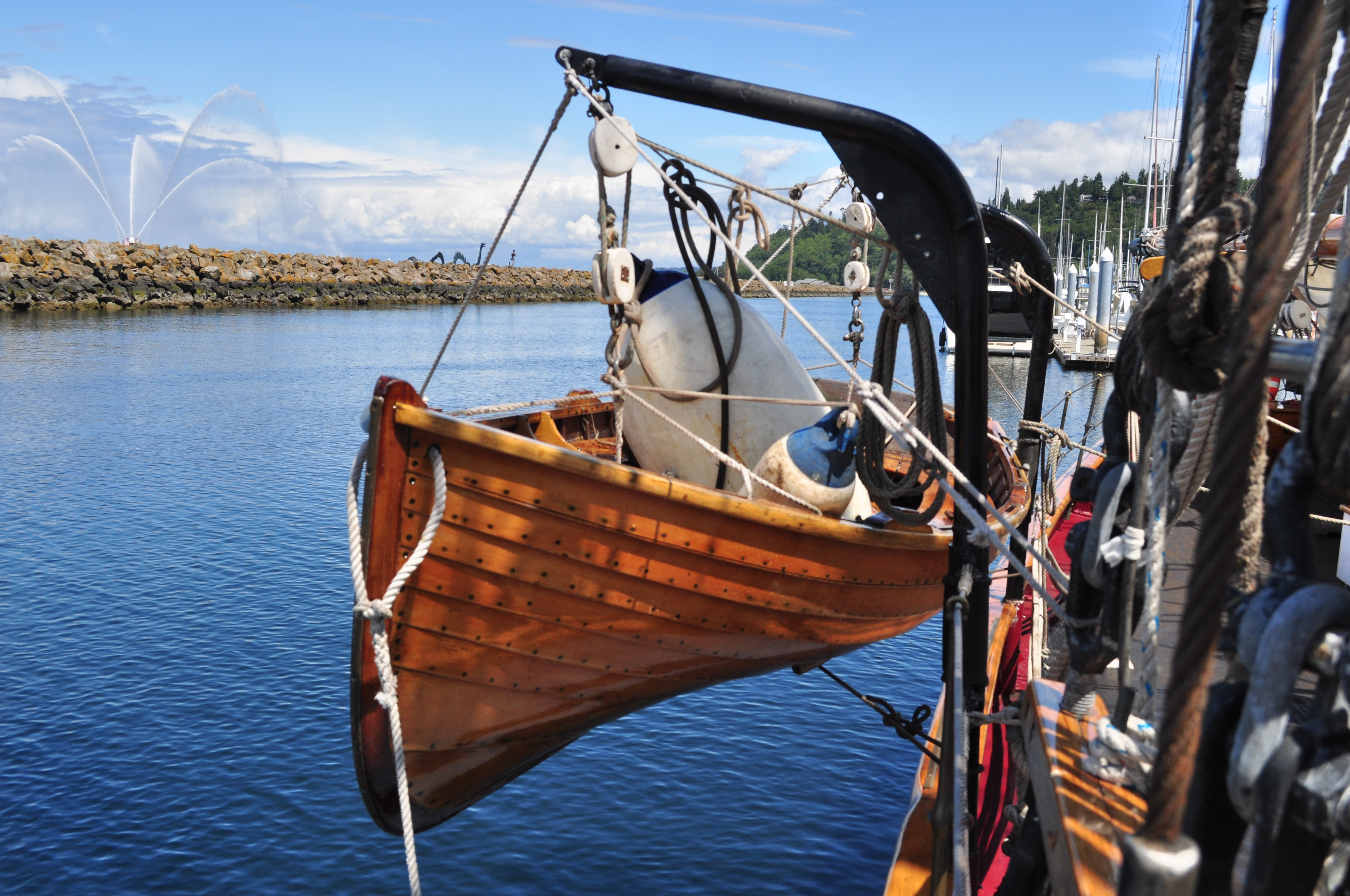 Dinghy of the Adventuress. Photographed while the Adventuress was at Shilshole Bay Marina, Ballard, Seattle, Washington, U.S. for Marina Day 2016. Adventuress is a National Historic Landmark. The spouting water in the distance is from the fireboat Leschi.